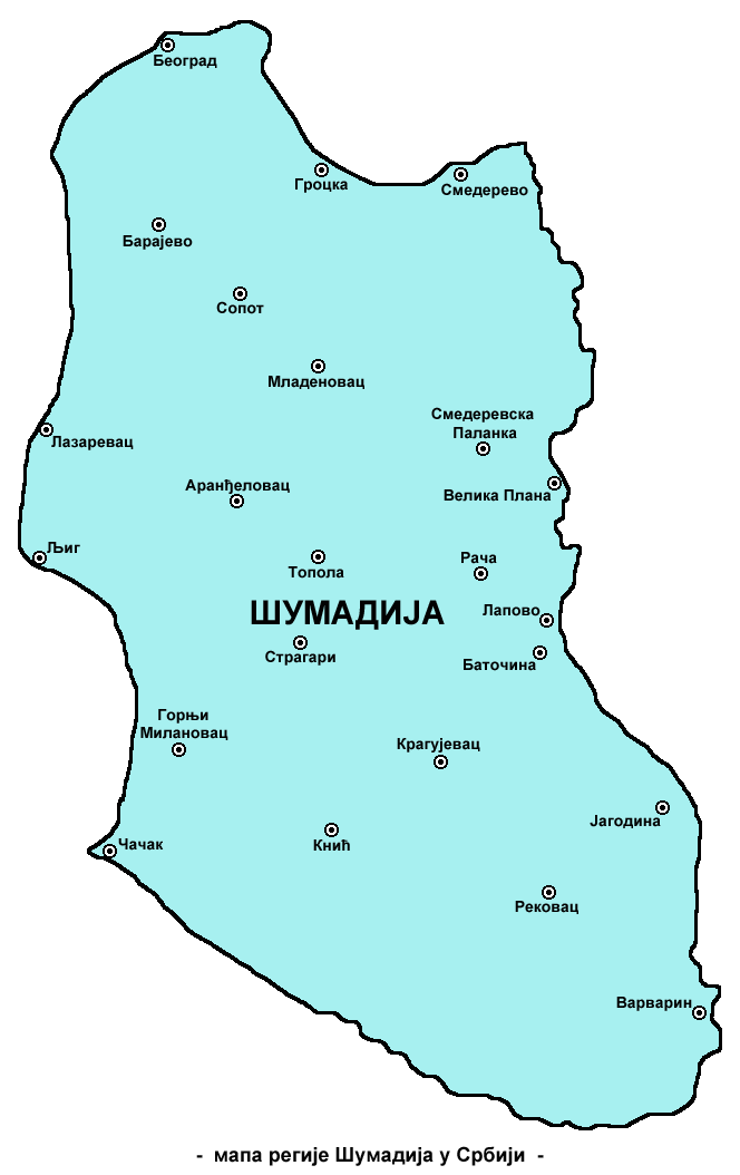 Map of Šumadija region in Serbia.